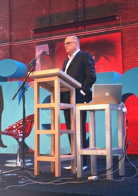 Felix Rottenberg at the 10 year aniversary of bkb